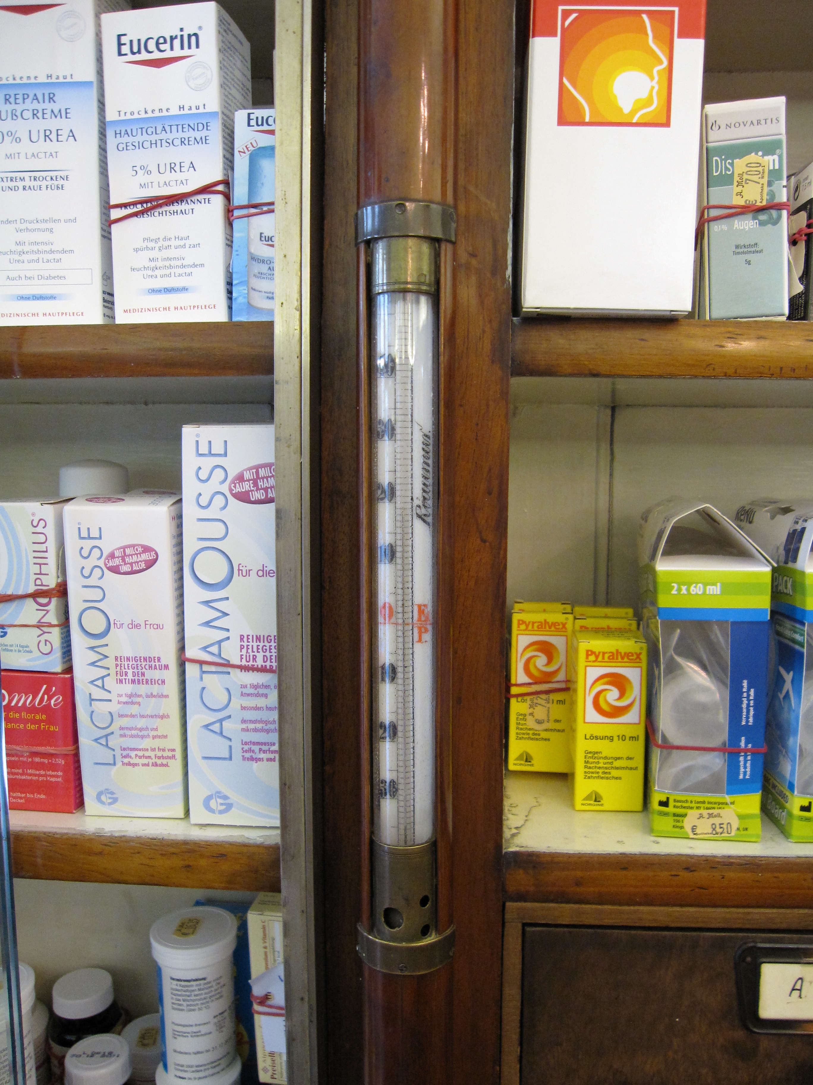 Old Réaumur scale in the pharmacy "Zum Weißen Storch" in Vienna's I. district, founded by August Moll.